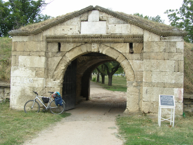 Fetislam fortress in Kladovo (Serbia)